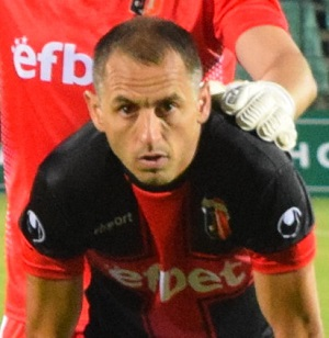 Bulgarian footballer Georgi Iliev